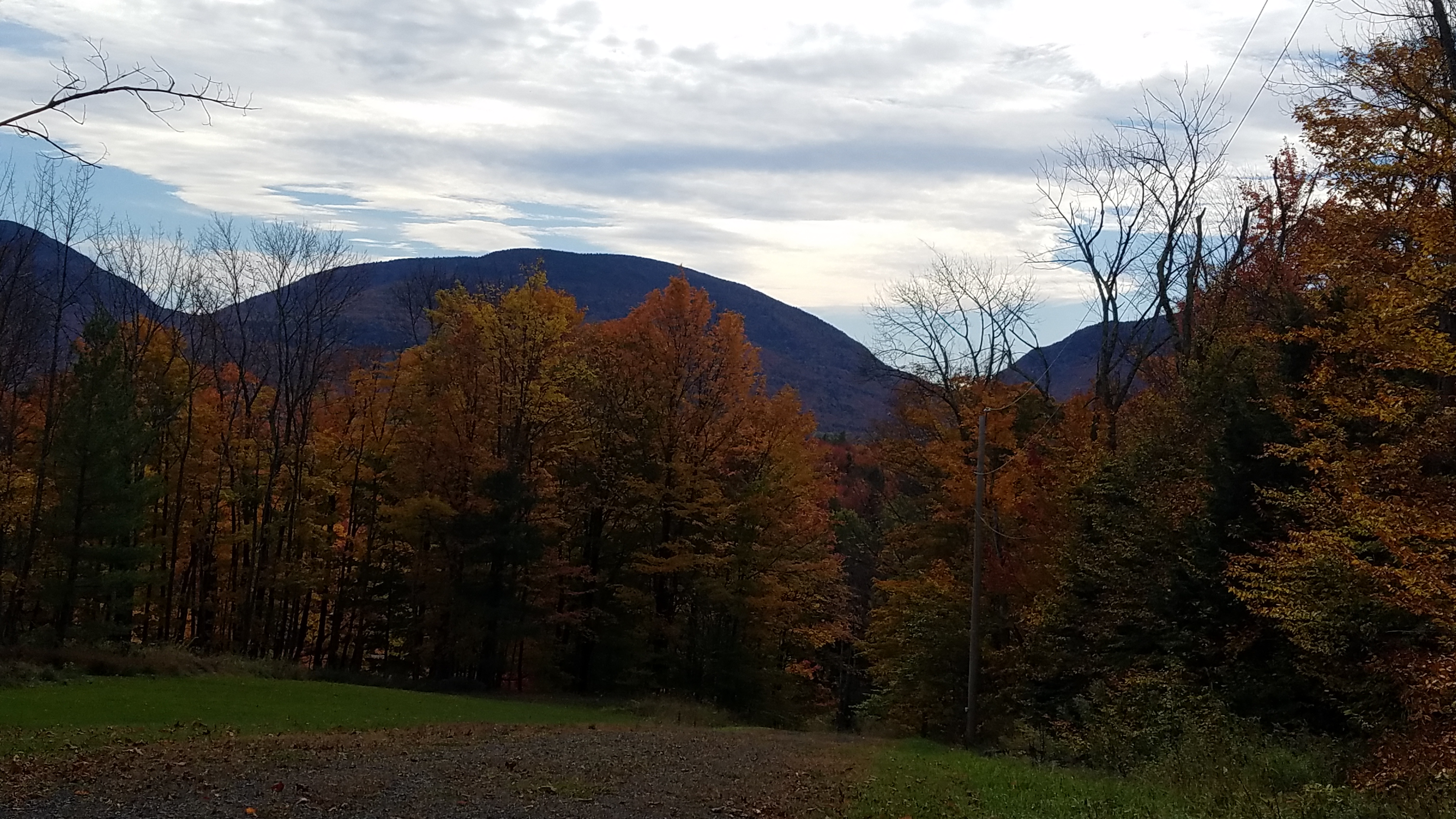 Indian Head Mountain seen from the north during the fall. Picture taken from the road